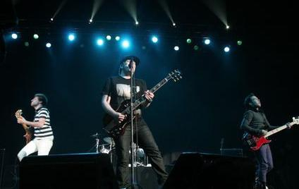 Fall Out Boy in concert